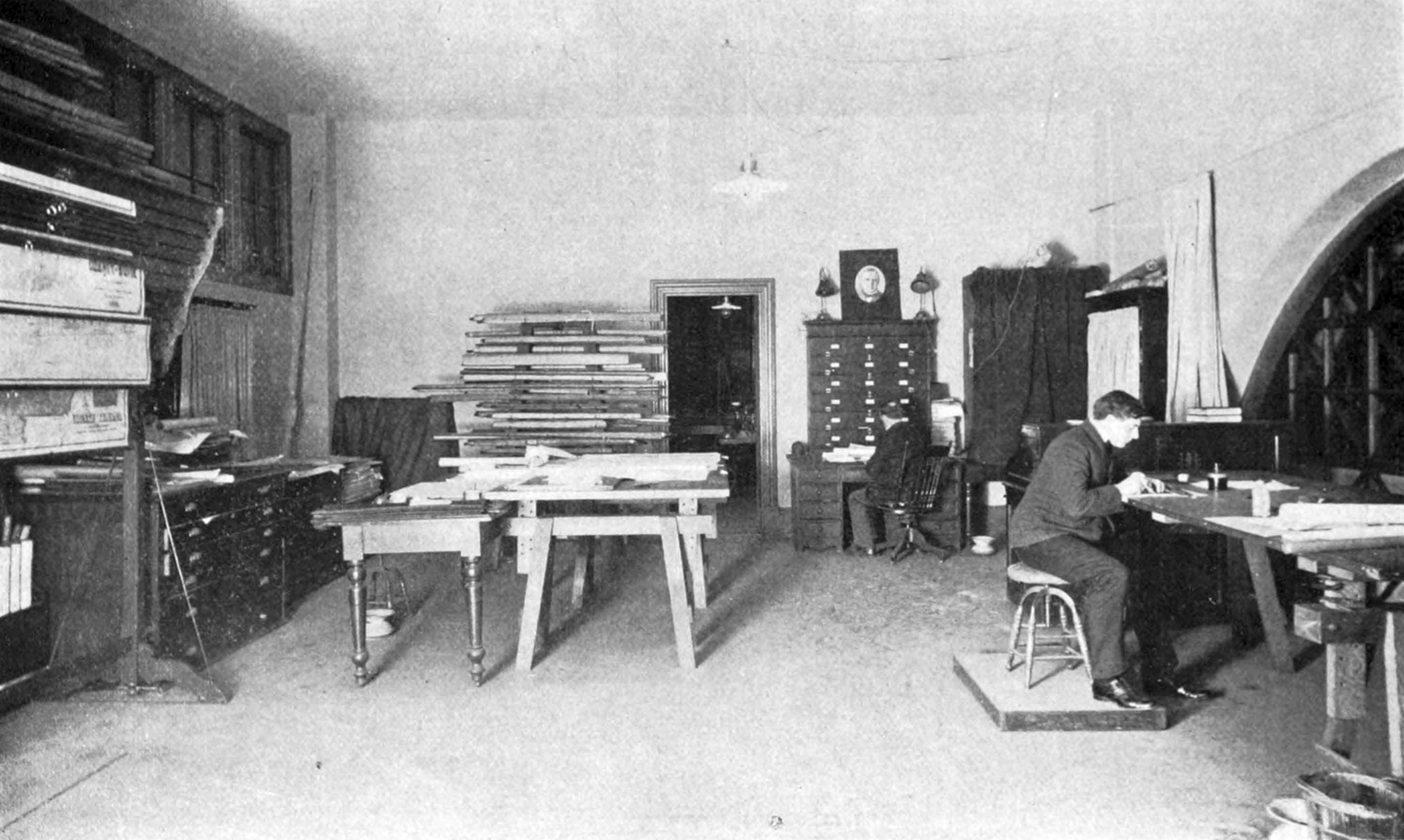 Draughting Department, California State Mining Bureau, 1905.